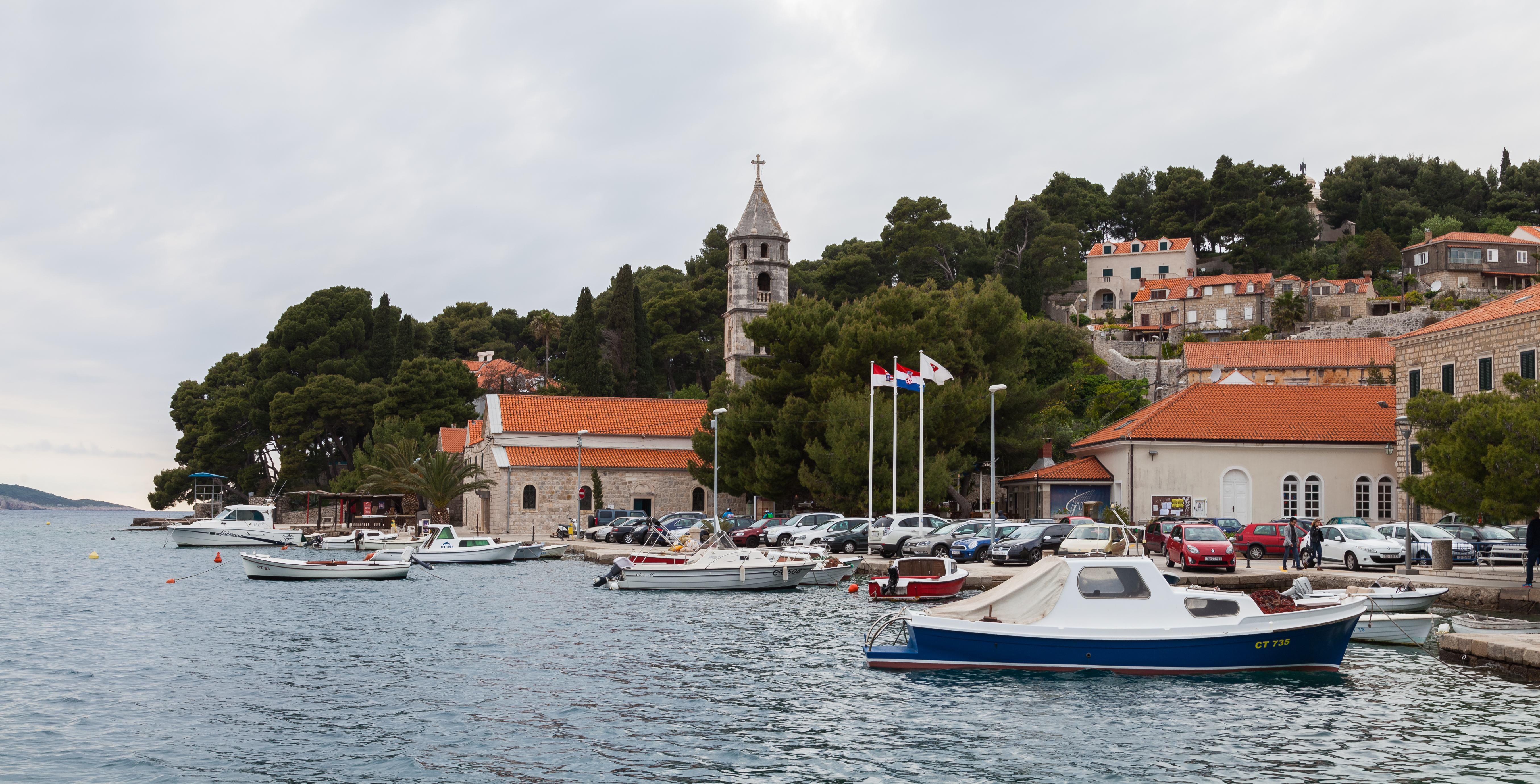 Cavtat, Croatia